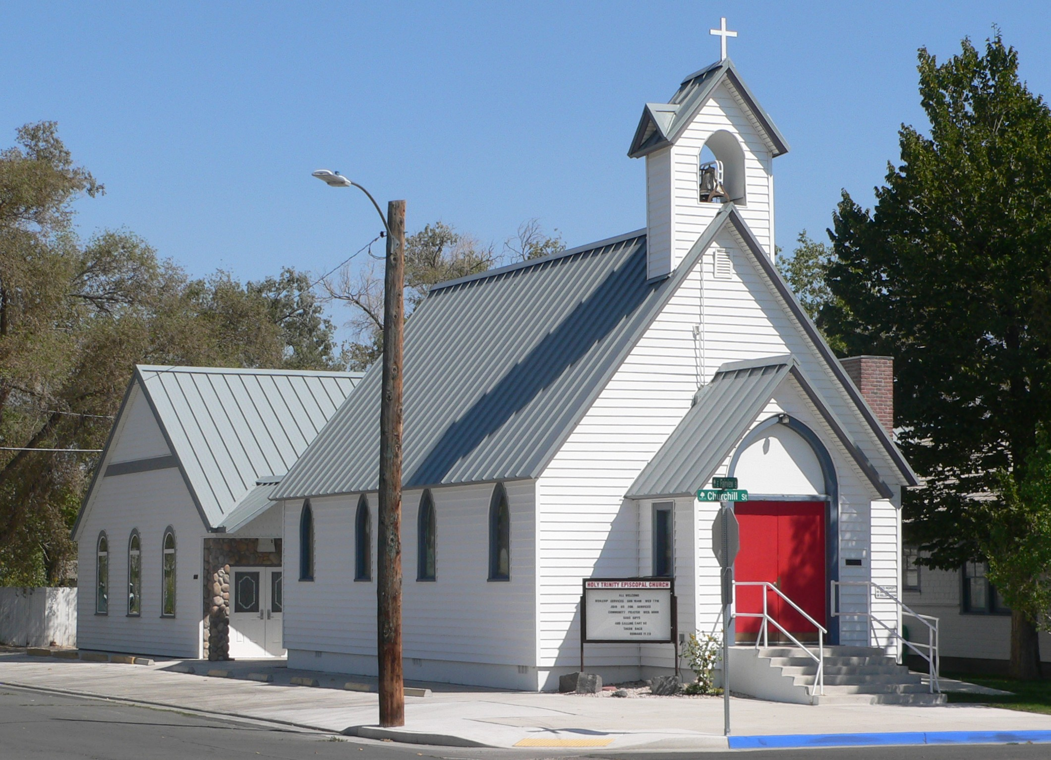 Holy Trinity Episcopal Church, located at southeast corner of Churchill and Fairview Streets in Fallon, Nevada; seen from the northwest.